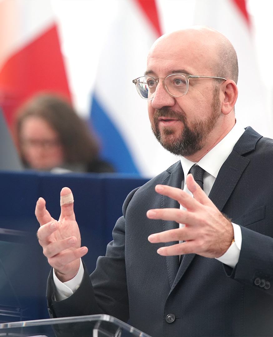 Most MEPs urged European Council President Charles Michel to ensure that the EU long-term budget reflects the climate neutrality goals agreed during the December summit. During the debate on the results of the 12-13 December EU summit with Council President Charles Michel and Commission President von der Leyen, political group leaders representing a majority in Parliament welcomed the decision on the EU’s long-term climate strategy that would lead to the EU becoming climate neutral by 2050. However, they heavily criticised the European Council’s unwillingness to agree to a viable solution on the 2021-2027 EU budget, which will need to provide appropriate funding not only for its traditional beneficiaries (citizens, regions, cities, farmers, researchers, students, NGOs and businesses), but also for the 2050 climate neutrality goals and the European Green Deal. Many speakers asked for either the European Union’s own resources mechanism or the decision-making at Council level to be reformed, or both, to enable the EU to address key challenges on which no progress appears to be possible under current rules. This photo is free to use under Creative Commons license CC-BY-4.0 and must be credited: "CC-BY-4.0: © European Union 2019 – Source: EP". No model release form if applicable. For bigger HR files please contact: webcom-flickr(AT)